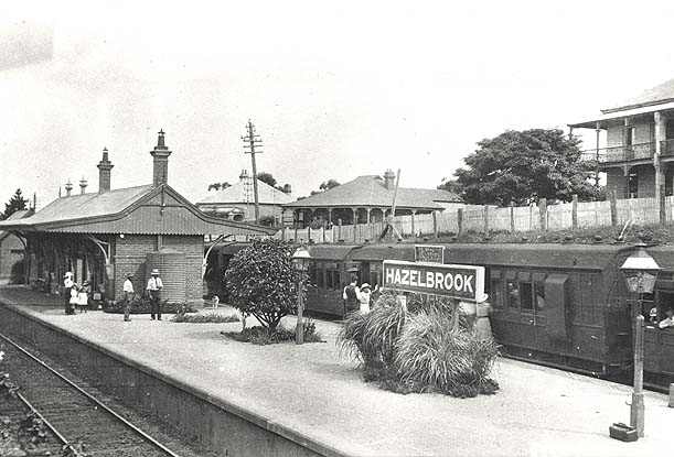 Hazelbrook Railway Station Dated: c. 31/12/1915 Digital ID: 17420_a014_a014000761 Rights: We'd love to hear from you if you use our photos. Many other photos in our collection are available to view and browse on our website using Photo Investigator.